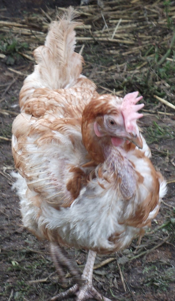 A battery chicken 5 days after coming out of its cage. Good condition not lame just a few feathers missing.